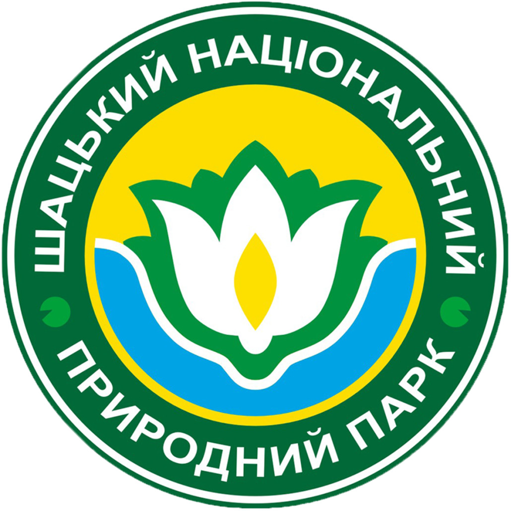 Shatsky National Natural Park